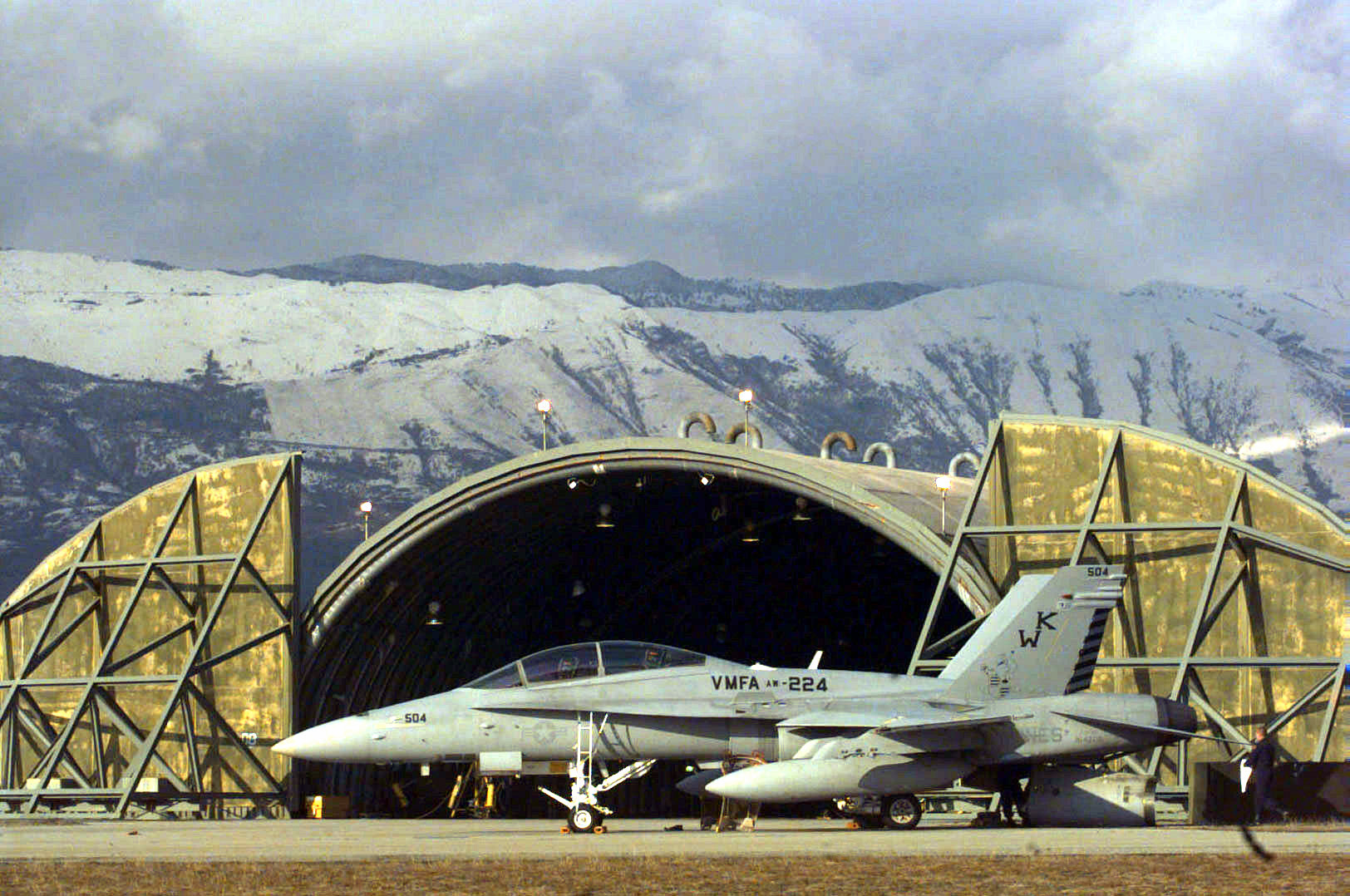 A U.S. Marine Corps Mcdonnell Douglas F/A-18D Hornet from Marine all-weather fighter-bomber VMFA(AW)-224 Fighting Bengals, MCB Beaufort, South Carolina (USA), sits on the parking ramp at Aviano AB, Italy, and waits to participate in "Operation Joint Endeavor" over Bosnia and Herzegovina.